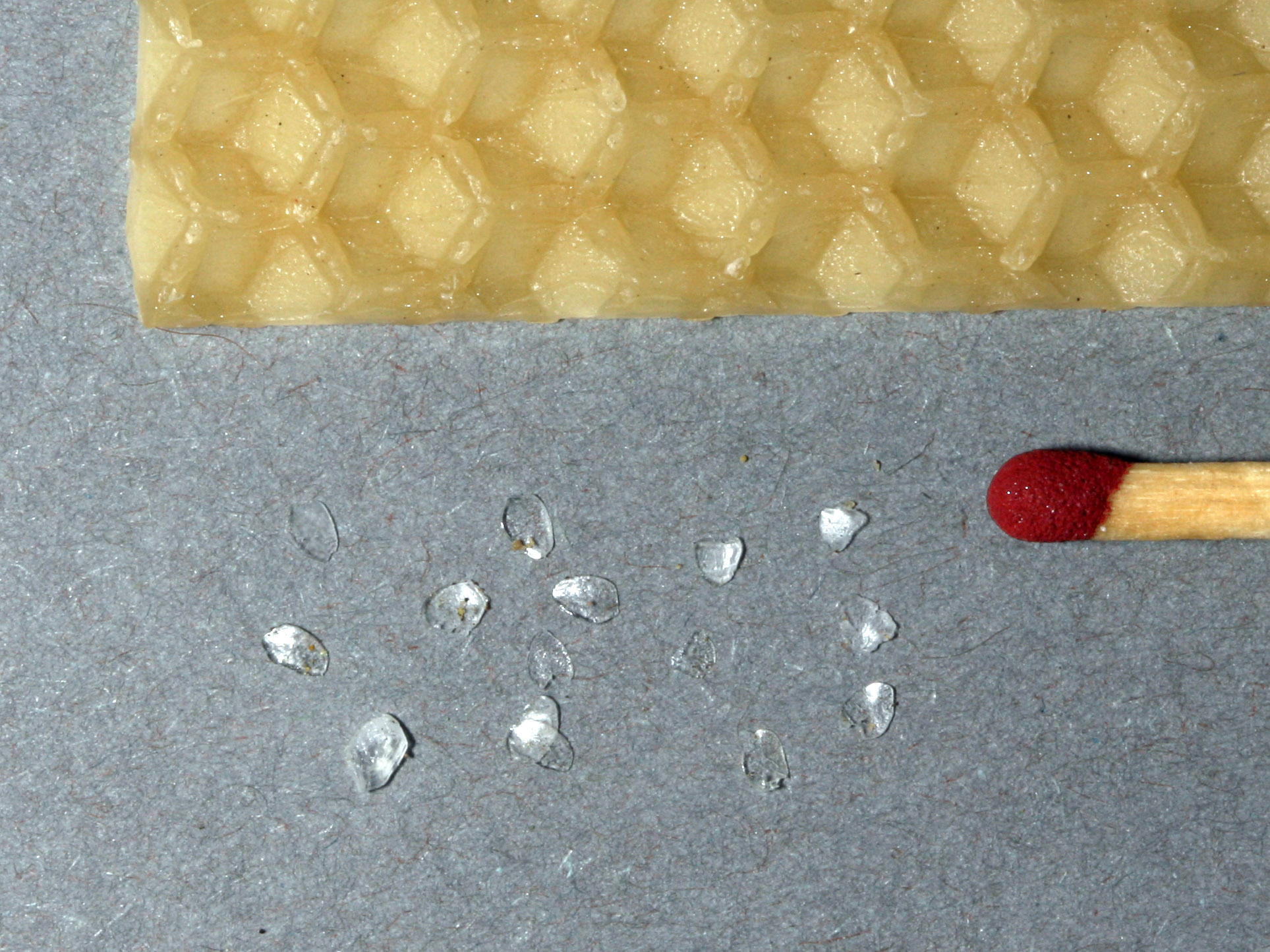 creation of way by bees